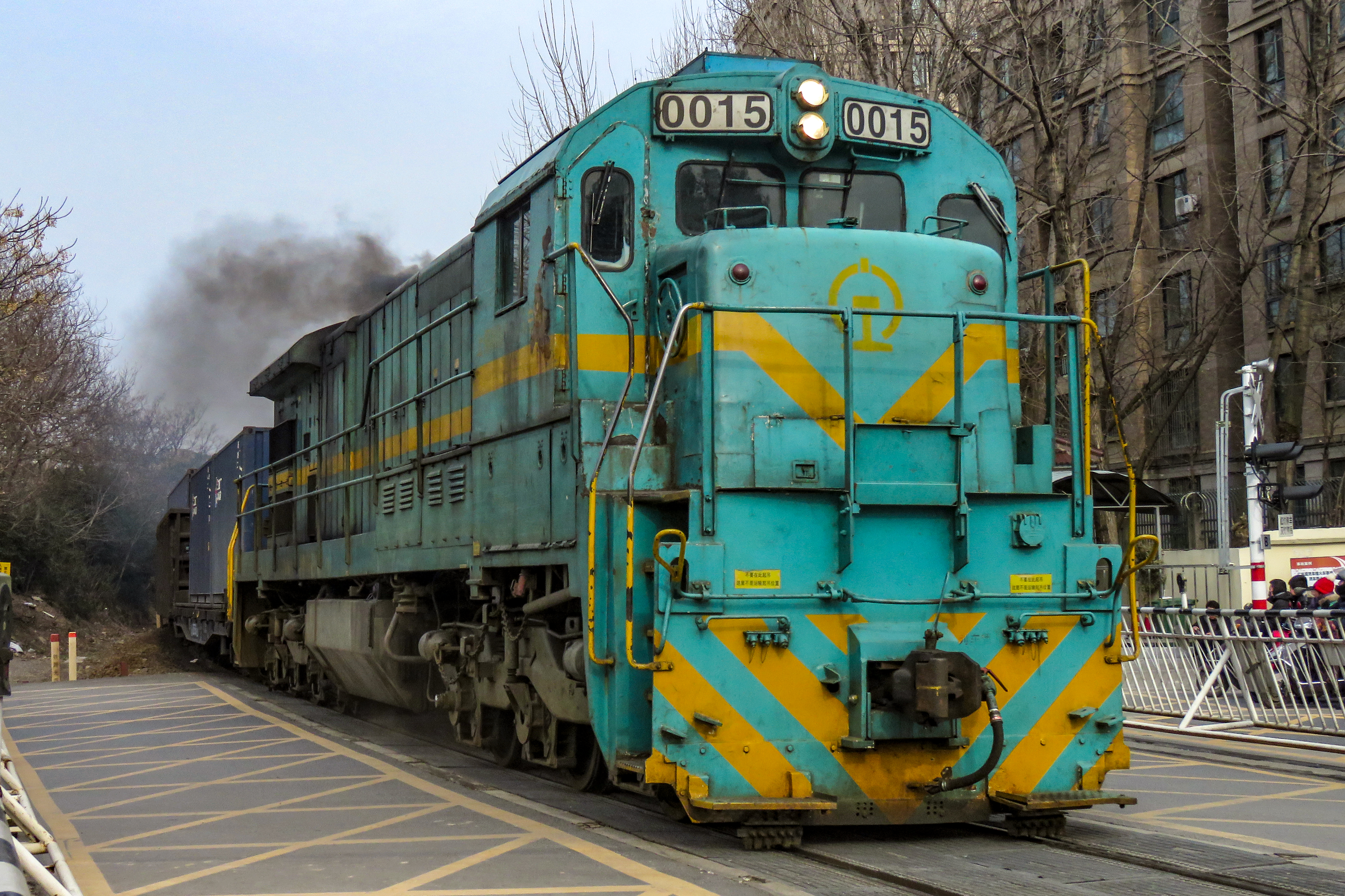 The ND5's are soon to be retired. Thank you, "Big Yankee"!